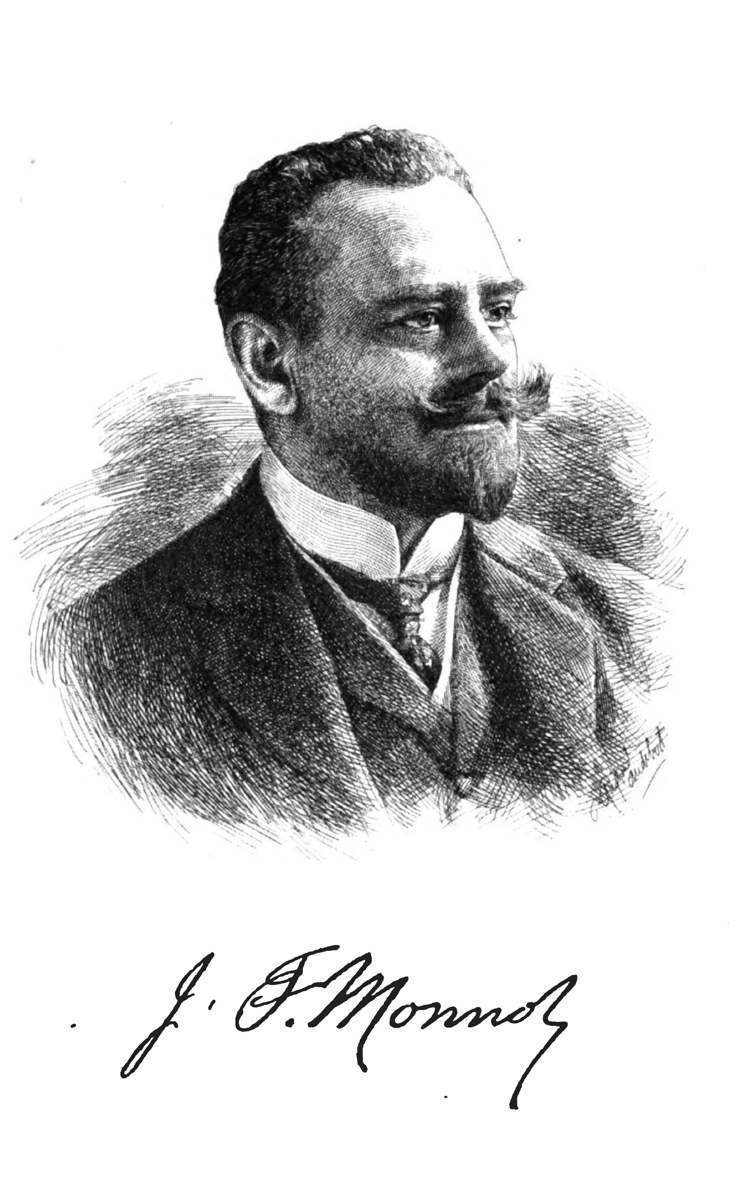 John Ferreol Monnot (b. May 13, 1864 – d.?) was an American mettalurgist and the inventor of copper-clad steel.